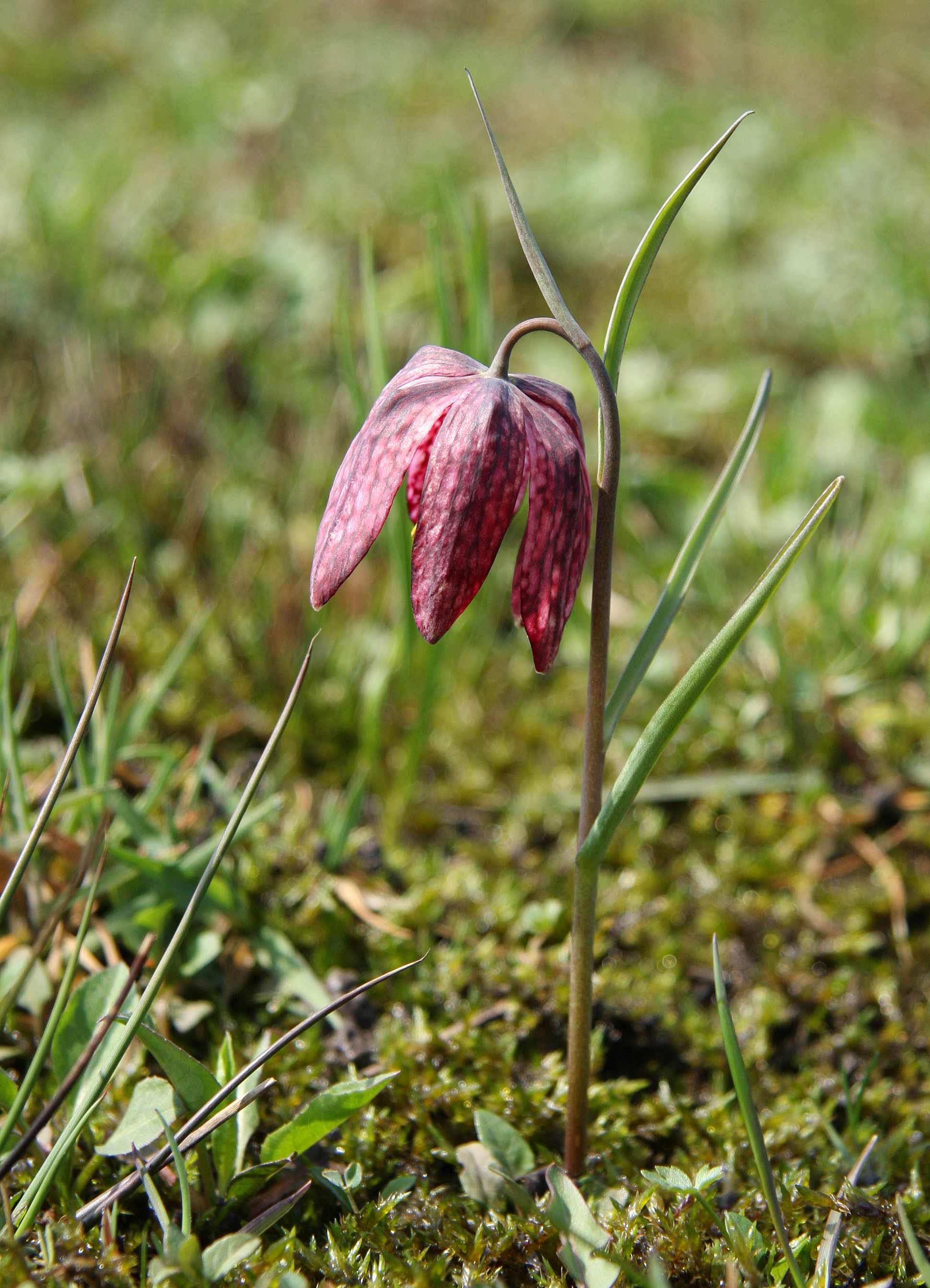 Snake's Head Fritillary (Fritillaria meleagris) on Ljubljana marsh near Vrhnika, Slovenia. Exact location not given due to conservational concerns.